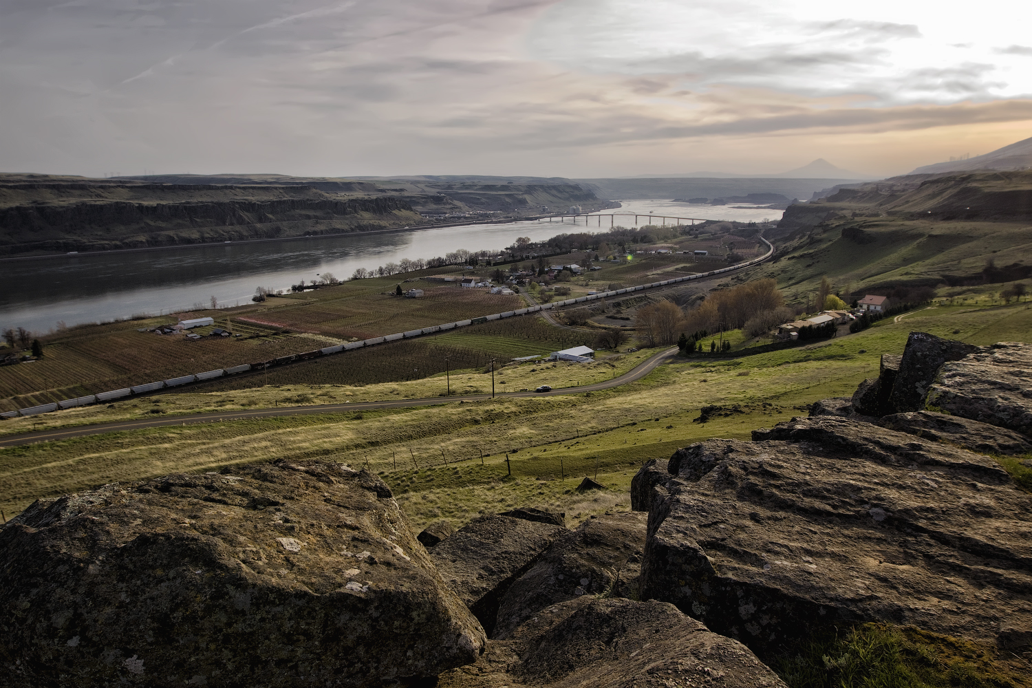 Maryhill, Washington